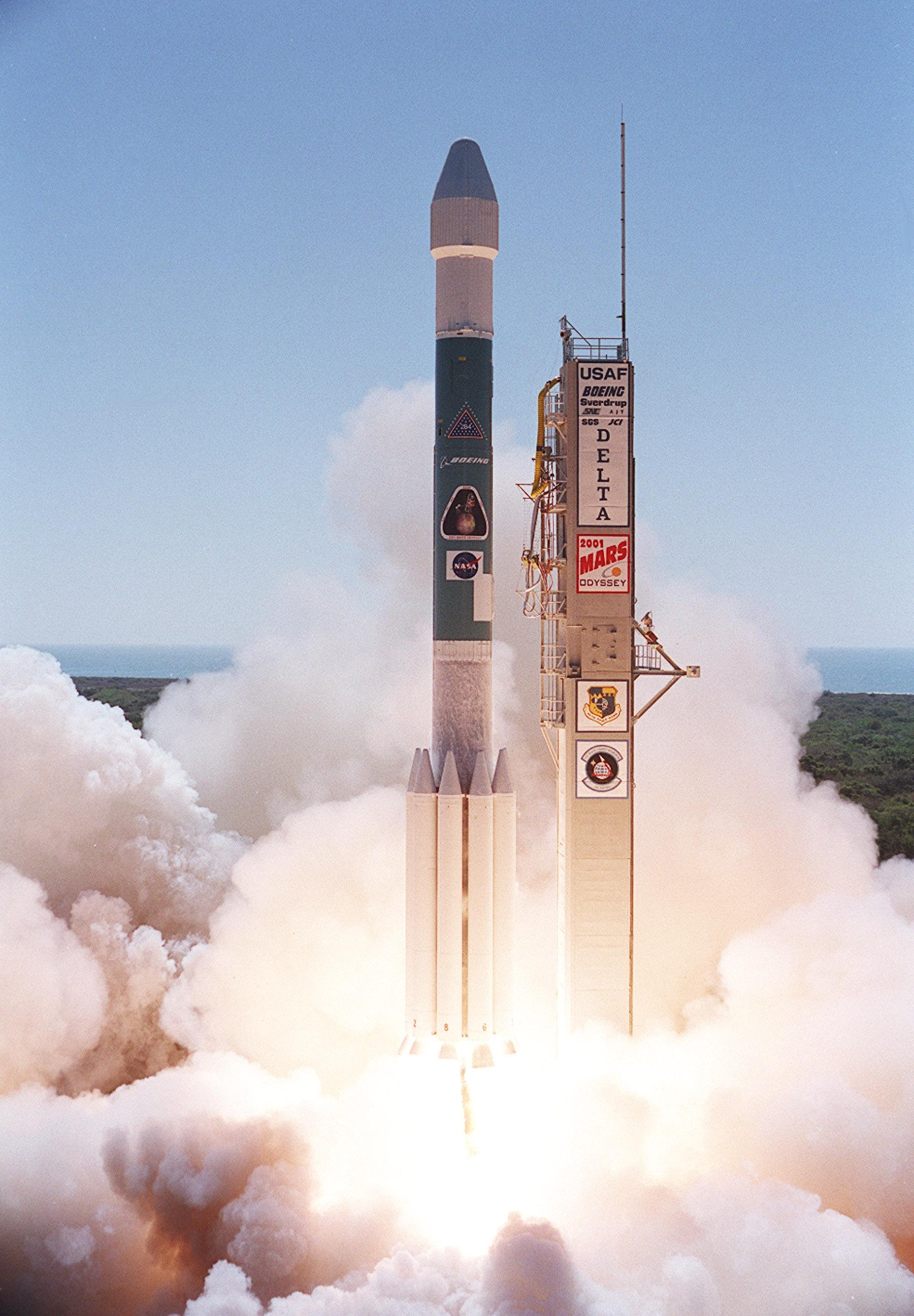 Amid billows of smoke and steam the Boeing Delta II rocket carrying the 2001 Mars Odyssey spacecraft leaves the Earth behind at Launch Complex 17-A at Cape Canaveral Air Force Station. Liftoff occurred at 11:02 a.m. EDT. The launch sends the Mars Odyssey on an approximate 7-month journey to orbit the planet Mars. The spacecraft, built by Lockheed Martin Space Systems for the Jet Propulsion Laboratory, will map the Martian surface looking for geological features that could indicate the presence of water, now or in the past. Science gathered by three science instruments on board will be key to future missions to Mars, including orbital reconnaissance, lander and human missions